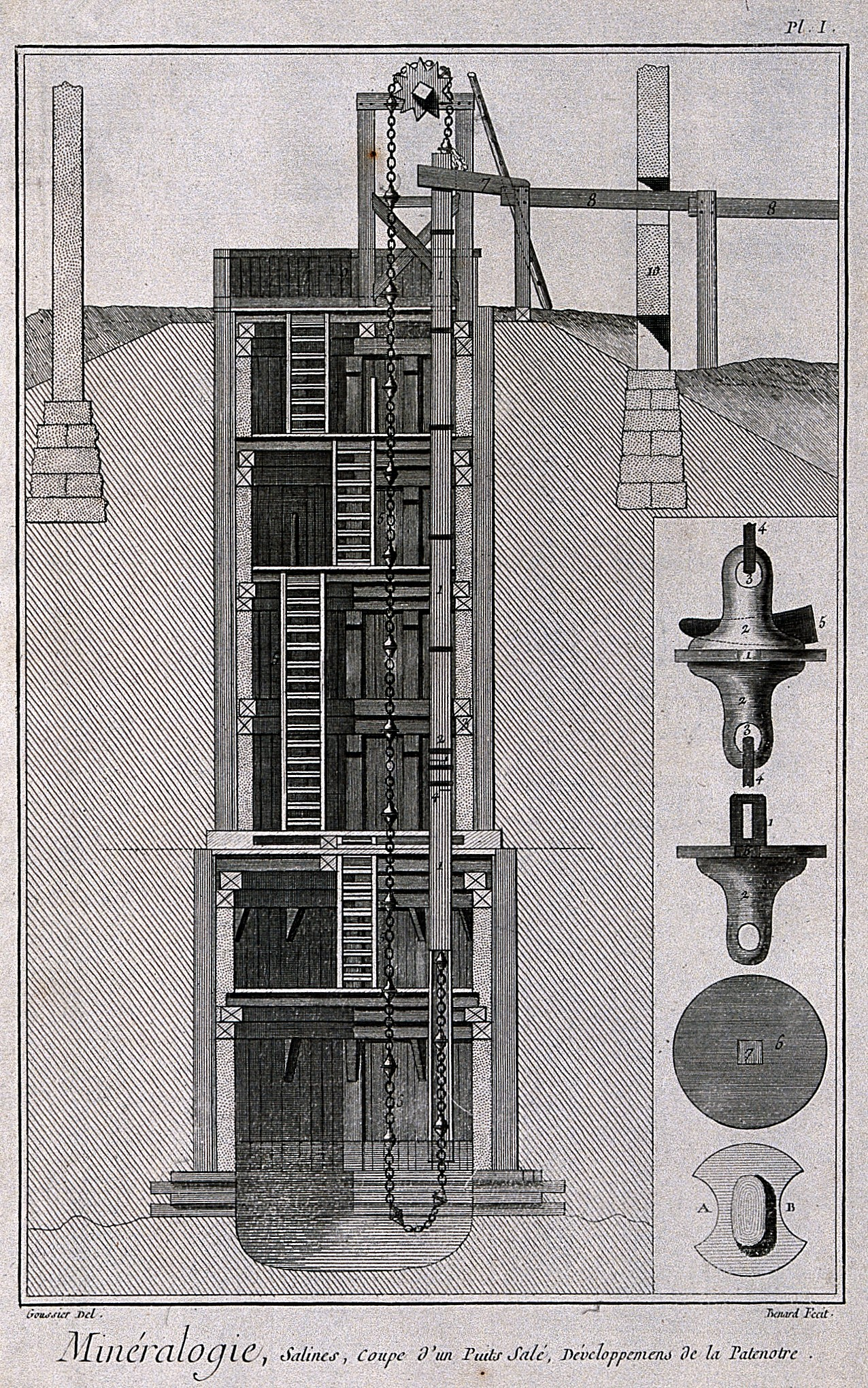 Cross-section of a shaft for extracting rubble from the pit. Etching by Bénard after Goussier. Iconographic Collections Keywords: Louis-Jacques Goussier; Robert Bénard